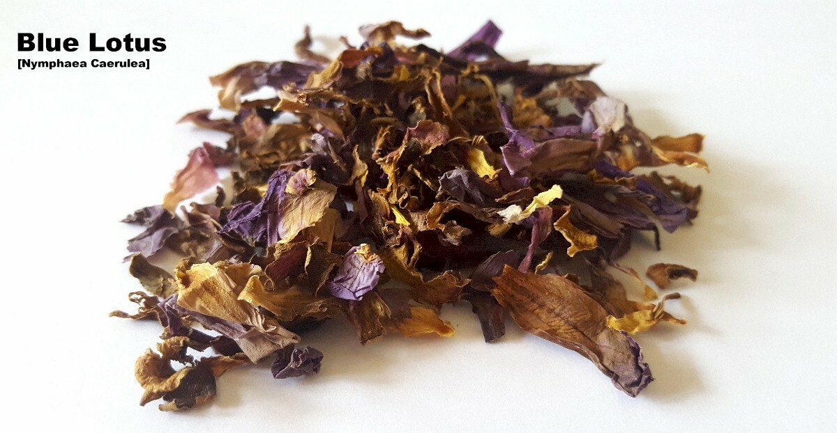 Steeped in history, blue lotus (nymphaea caerulea) induces dreamy sedating effects.